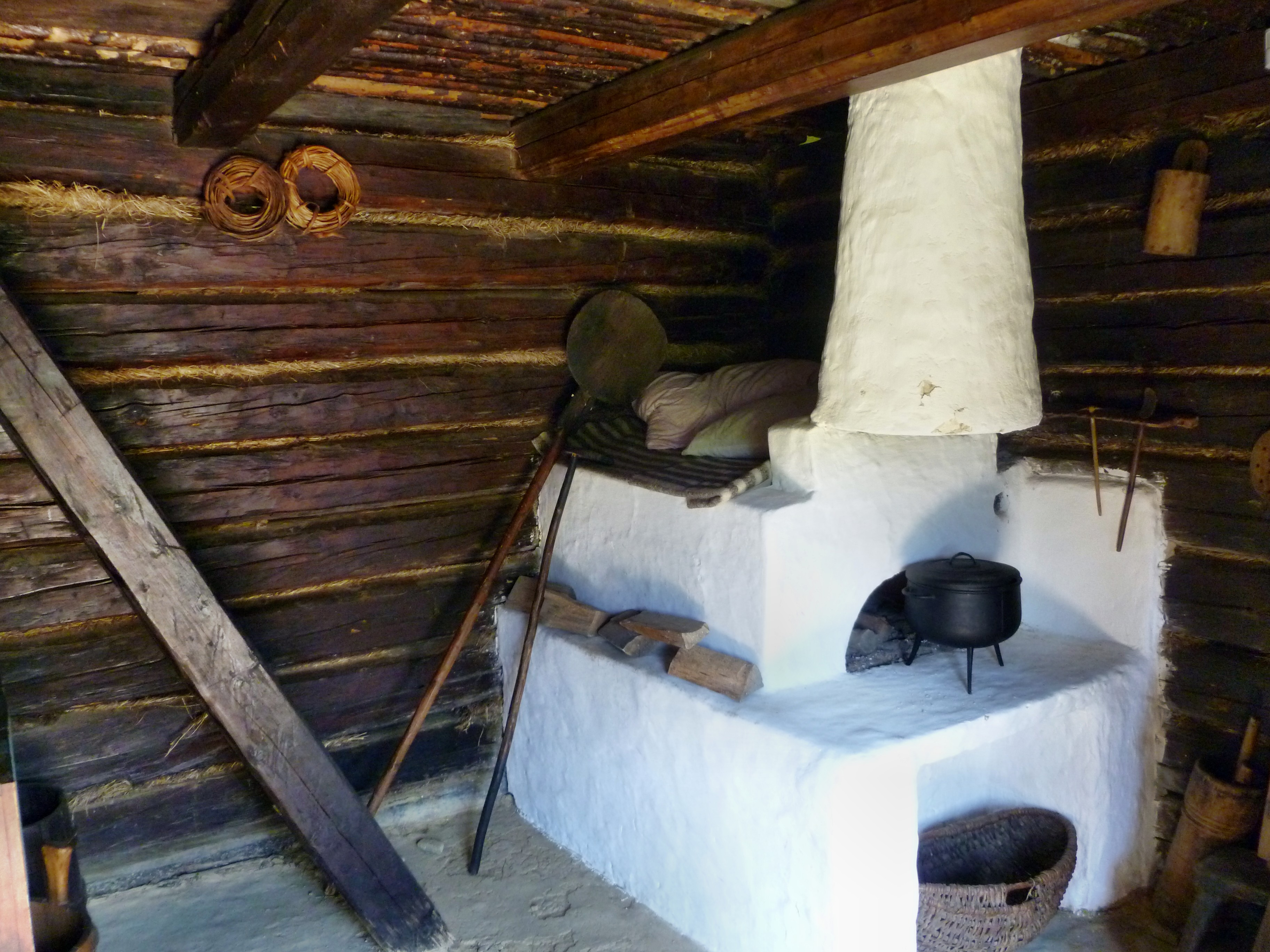 Oldest type of a baker's stove in Upper Spiš; shepherd's house from Litmanova in the open-air museum of Ľubovňa (Slovakia)